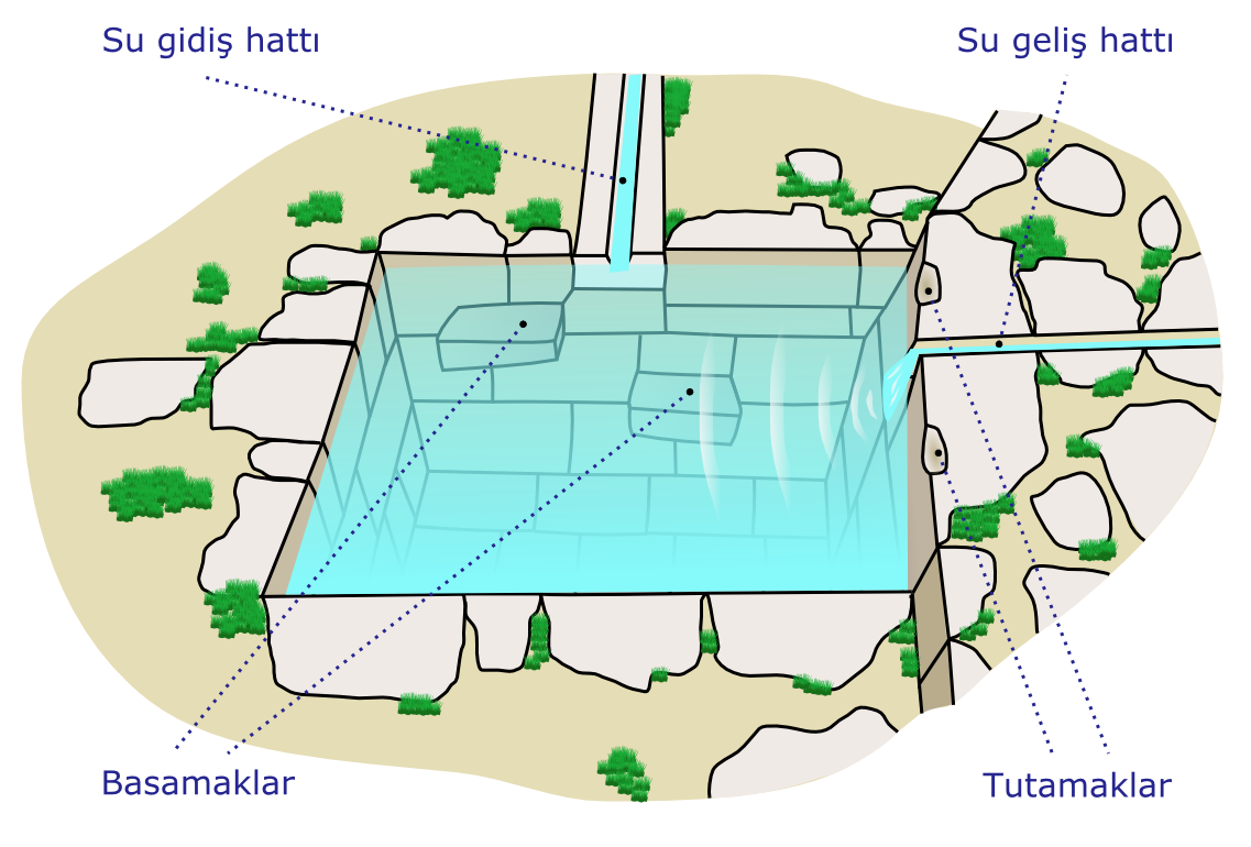 Inca baths are very important part of the Inca architecture